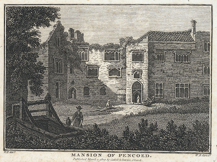 1 print : engraving, b&w ; image size 77 x 110 mm., paper size 109 x 142 mm.